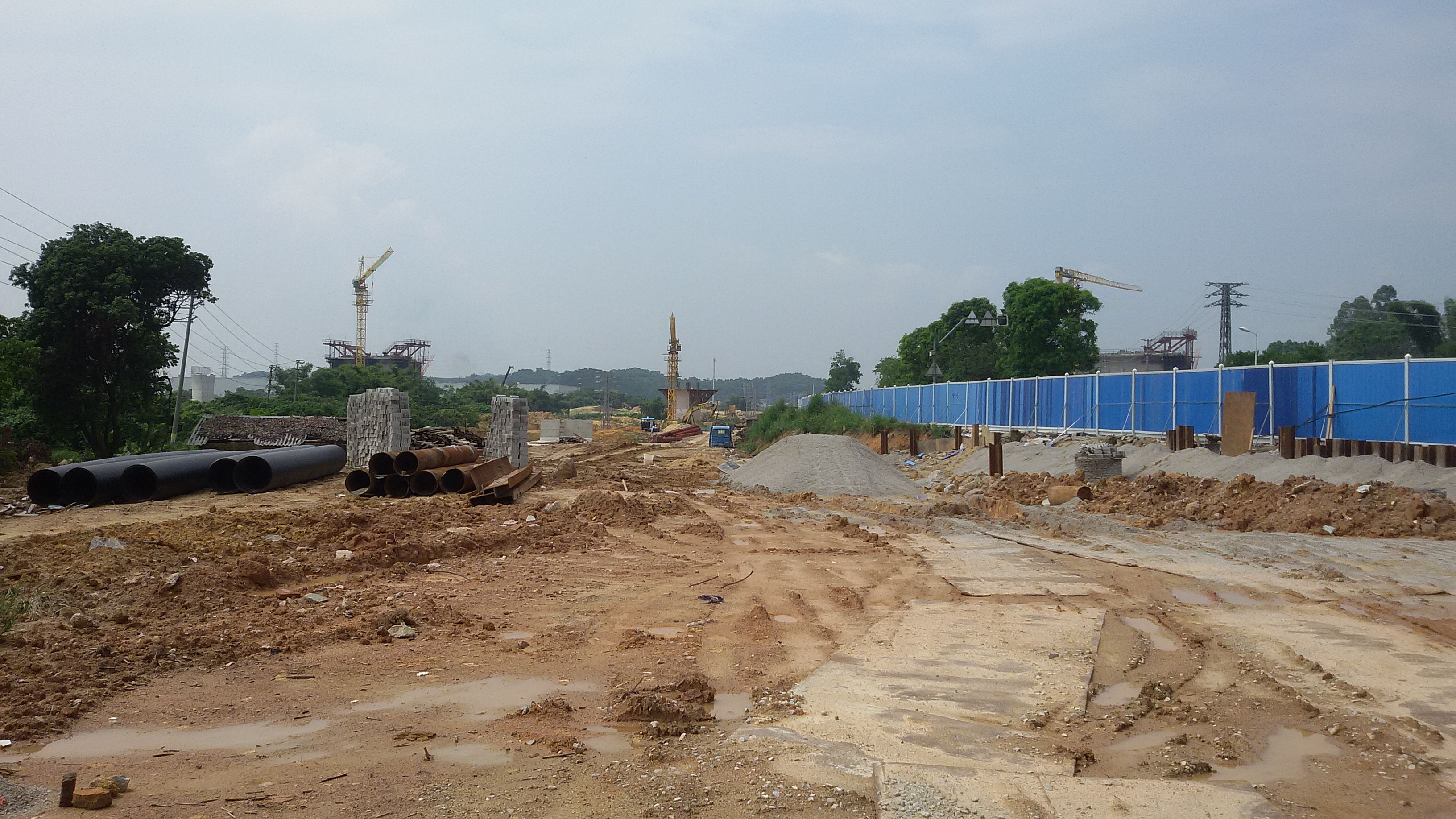 Matouzhuang Station was already under construction on Sep. 6th., 2017.